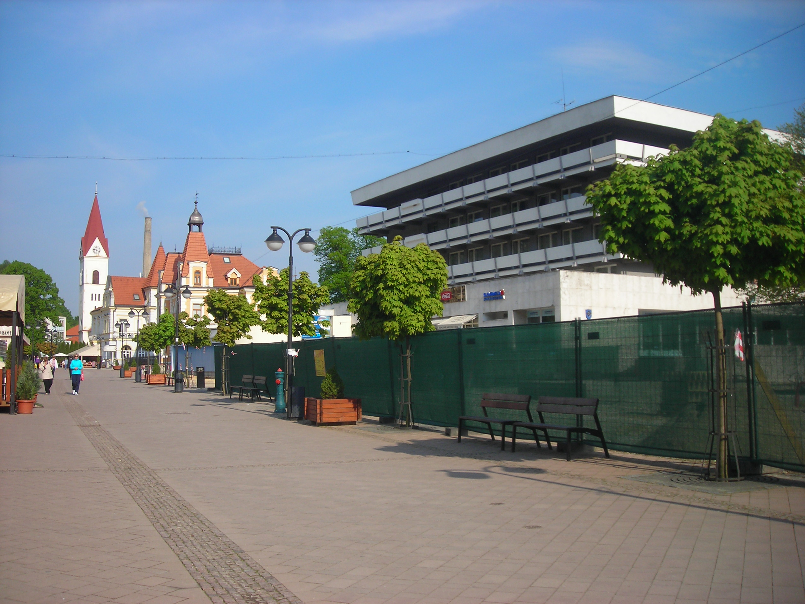 Pedestrian zone in Trenčianske Teplice